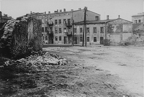 Rynek Warszawski Square (now Ghetto Heroes Square) in Częstochowa, occupied Poland (circa 1944) shelled during the ghetto uprising. This is where Jews in the ghetto were being assembled for forced labor and deportations